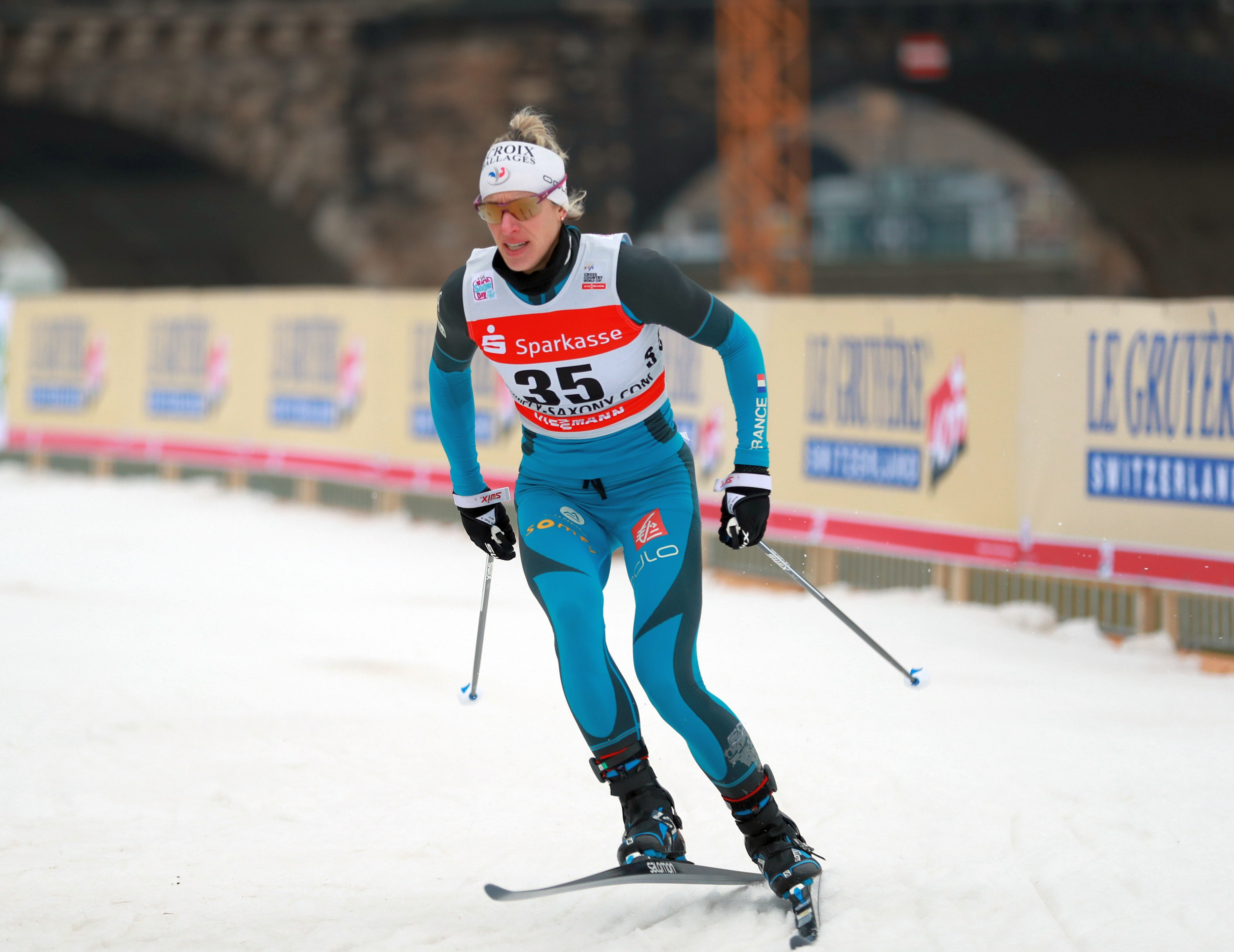 Womens Prolog at the FIS Cross-Country World Cup Dresden 2018: Aurore Jean